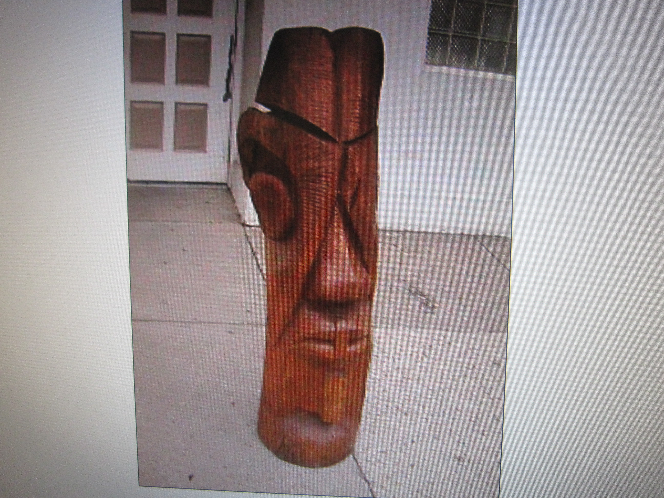 Freedom of Speech 1980 Sculpture by Cephas Yao Agbemenu, directly from his photo album.